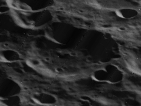 Oblique view of Riedel, on the moon.